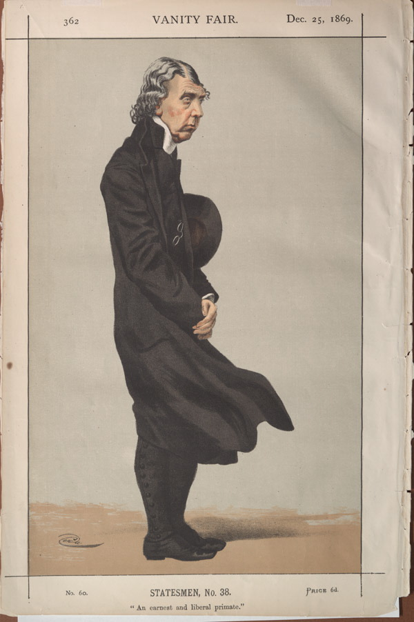 Statesmen No.38: Caricature of Archibald Campbell Tait, Archbishop of Canterbury. Caption reads "An earnest and liberal primate".